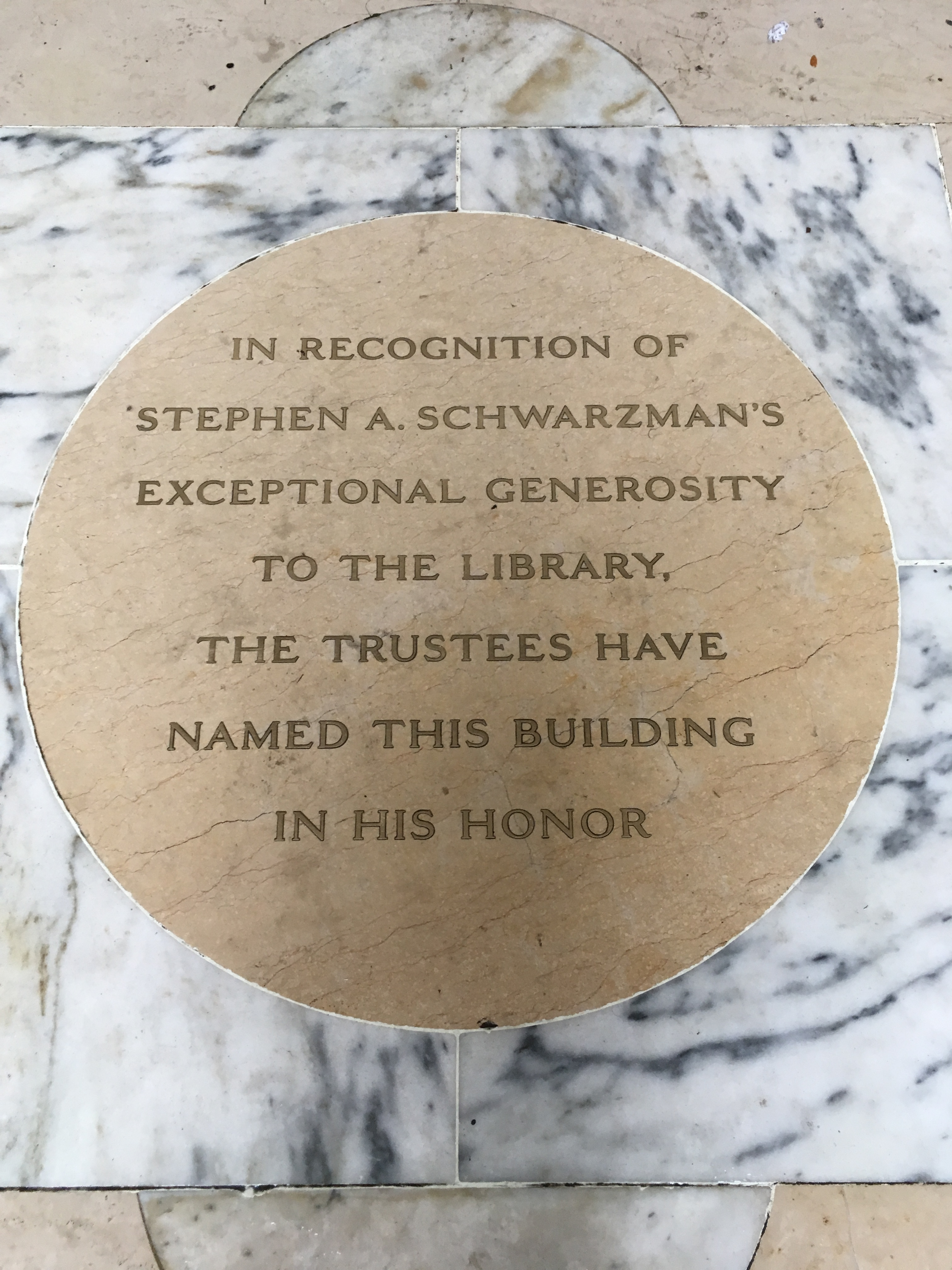 plaque in New York City, New York, USA honoring Stephen A. Schwarzman contributions